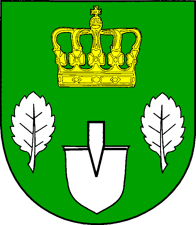 Coat of arms of the municipality Sophienhamm in Schleswig-Holstein, Germany.